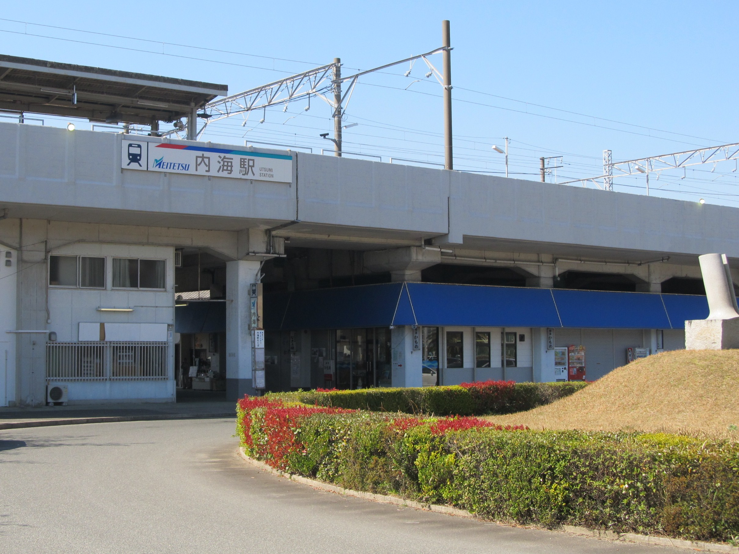 Nagoya Railroad Chita Line Utsumi Station